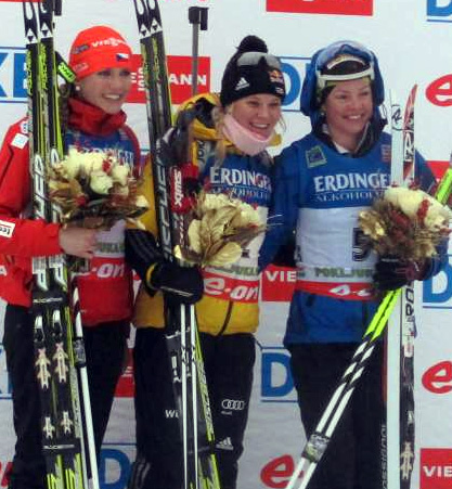 Pokljuka Biathlon World Cup Cropped from File:Pokljuka Biathlon World Cup 2012 (3).jpg